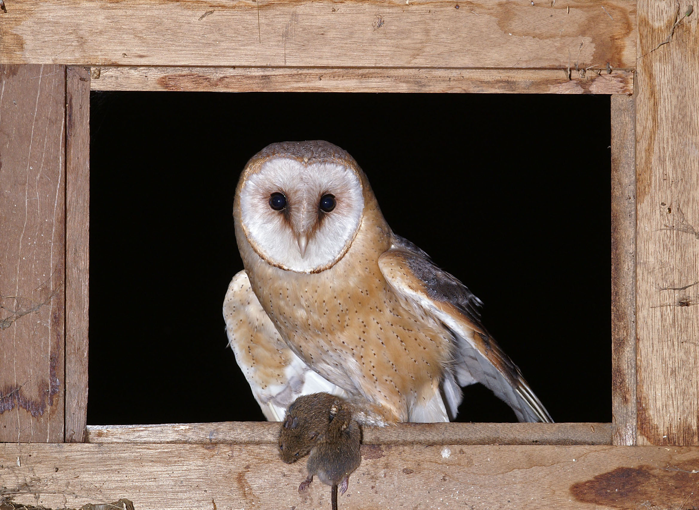 Barn Owl